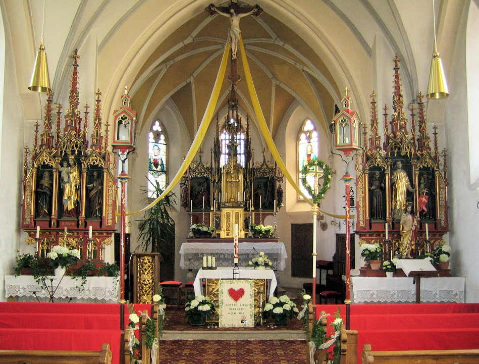 Haunzenbergersöll, interior view of Saint John the Baptist Church from south-west.